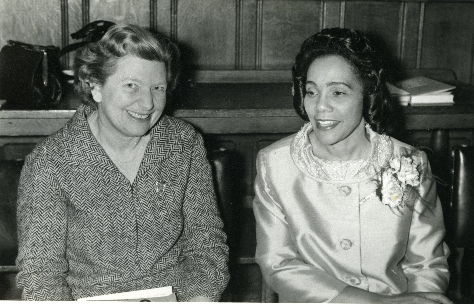 Coretta Scott King was a strong advocate for world peace, at some point in the 1960s she visited London and met with several peace organisations including WILPF. Here she is pictured with Labour M.P. Joyce Butler, who was a long term member of WILPF.